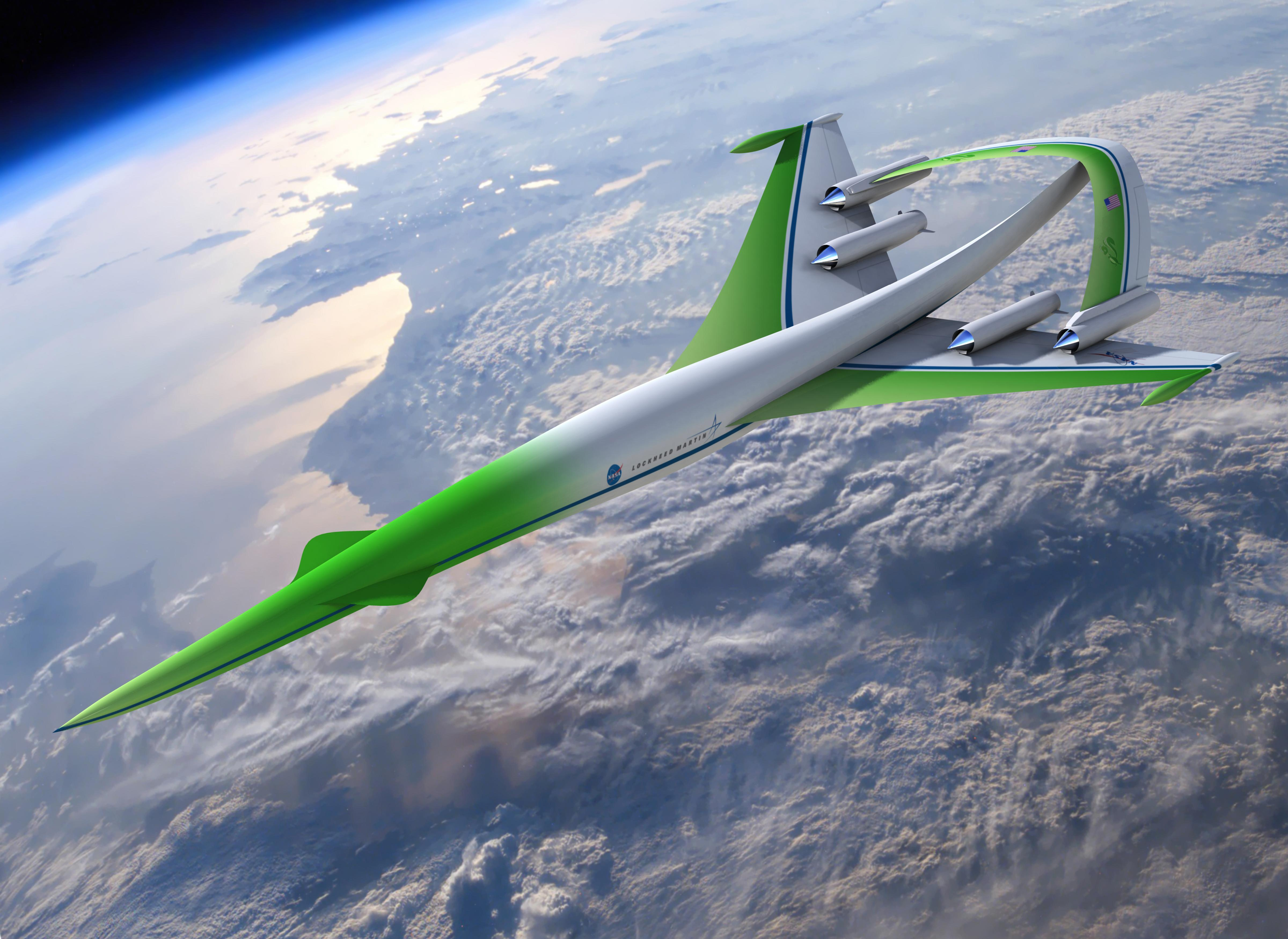 This future aircraft design concept for supersonic flight over land comes from the team led by the Lockheed Martin Corporation. The team's simulation shows possibility for achieving overland flight by dramatically lowering the level of sonic booms through the use of an "inverted-V" engine-under wing configuration. Other revolutionary technologies help achieve range, payload and environmental goals. This supersonic cruise concept is among the designs presented in April 2010 to the NASA Aeronautics Research Mission Directorate for its NASA Research Announcement-funded studies into advanced aircraft that could enter service in the 2030-2035 time-frame.